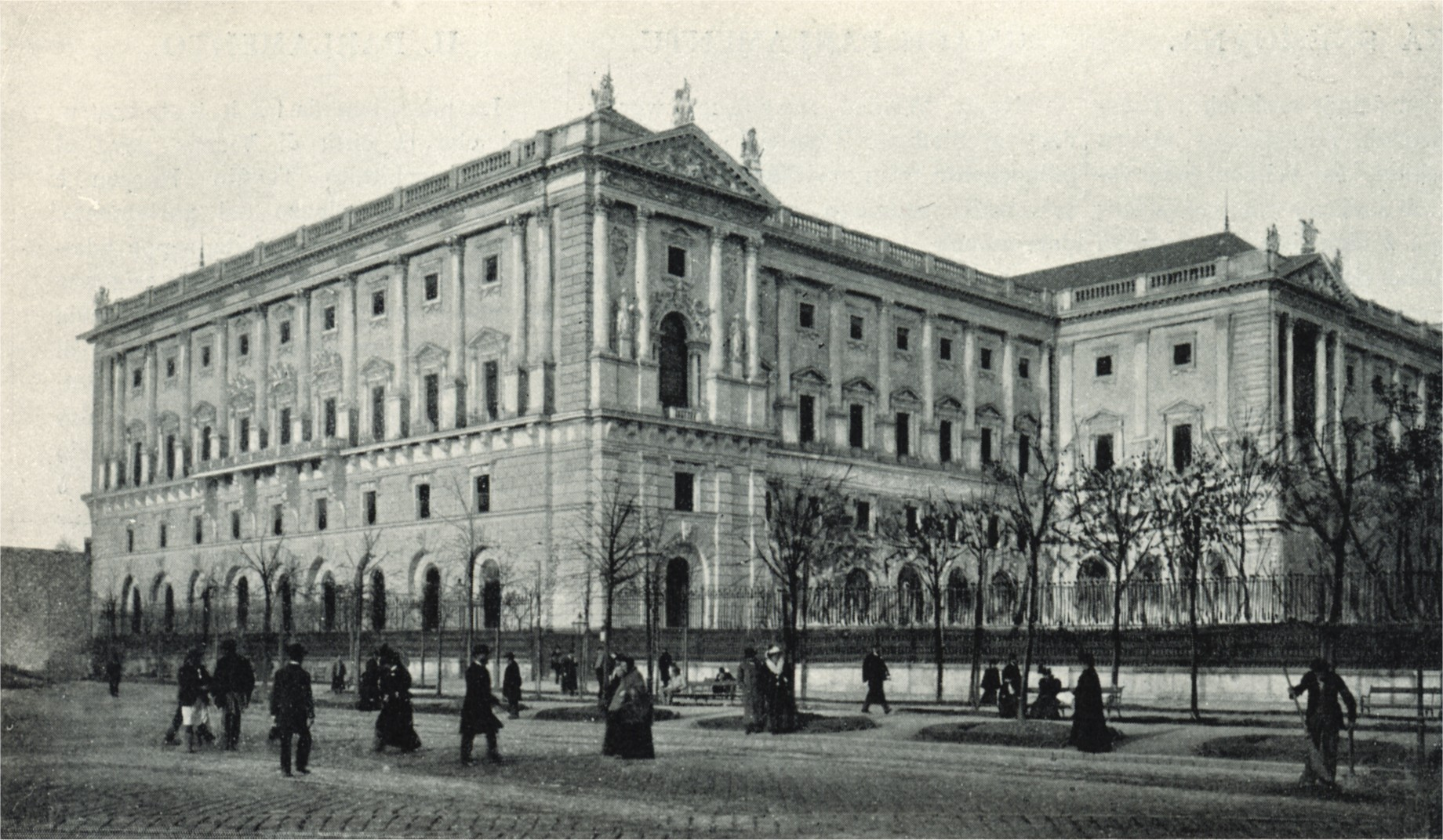 Burgflügel of the imperial palace in Vienna seen from the Burgring